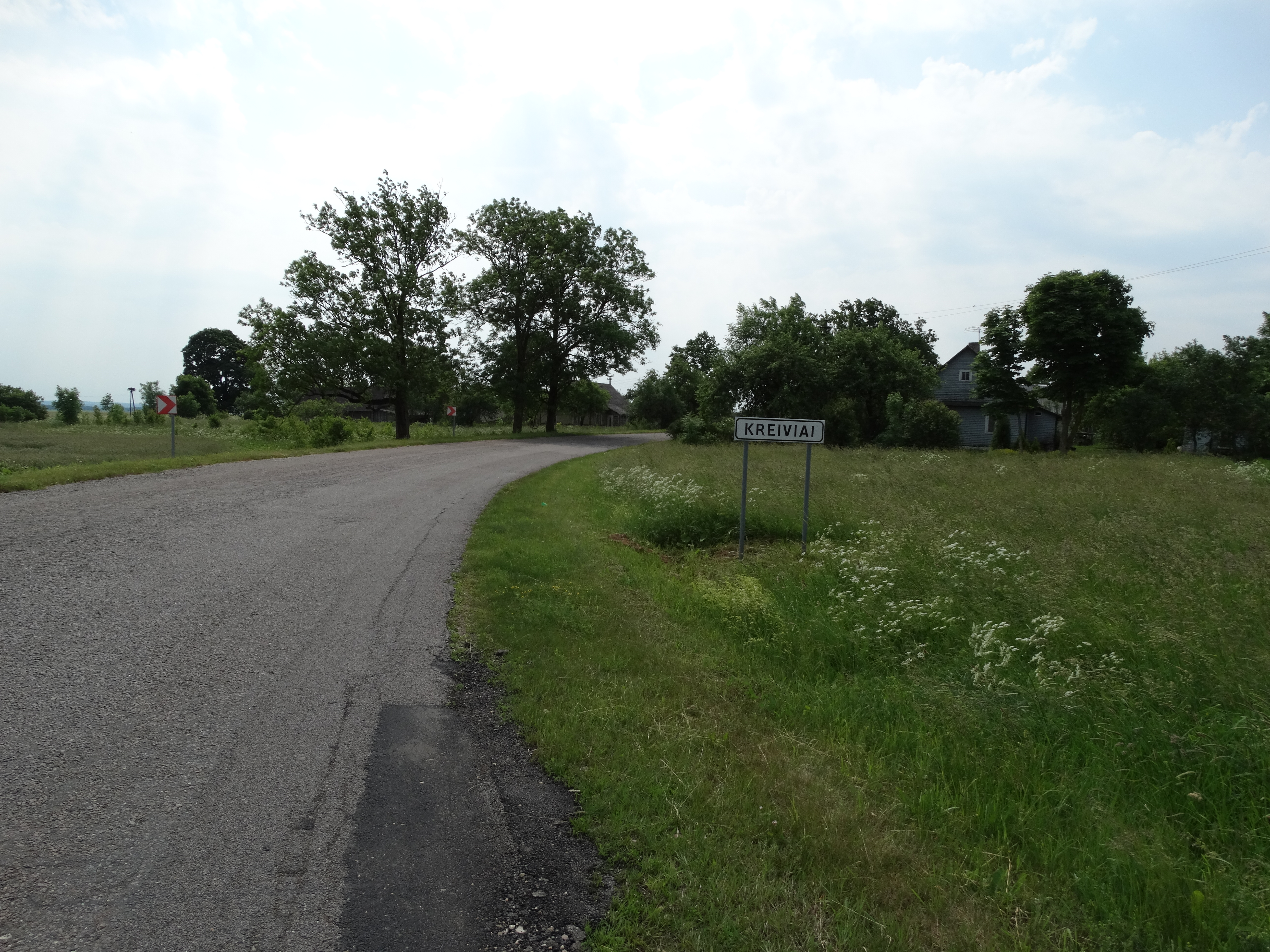 Kreiviai, Ukmergė District, Lithuania